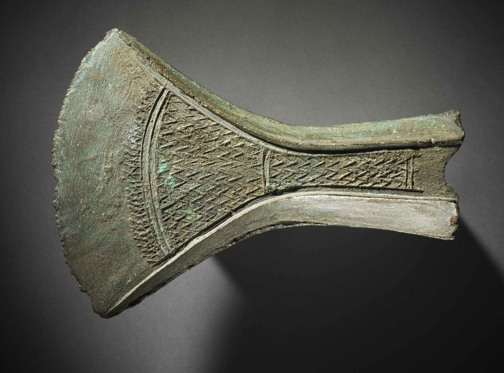 Indonesia, circa 1st-3rd century A.D. Arms and Armor; axes Copper alloy Gift of Daniel Ostroff (M.2003.226.2) South and Southeast Asian Art